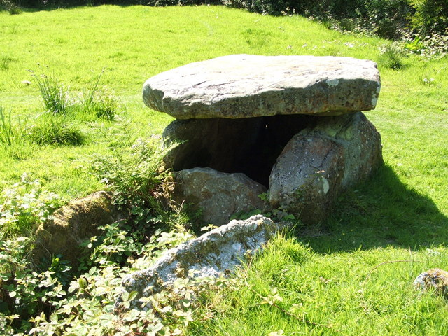 Haylie Chambered Tomb. Also known as Haco's Tomb (perhaps a reference to the very much later Norwegian King Haakon of the Battle of Largs), this long chambered grave, of the Clyde type, lies in grassland near Douglas Park; the site is easily accessible, marked by a sign with rather worn lettering. I chose to show this end of the grave because it is still well exposed to view; the other end was largely obscured by vegetation on the day the photo was taken. As can be seen here, an original capstone is still present on the surviving chamber, which is the innermost of (probably) three original chambers. The grave was originally covered by a large cairn (called Margaret's Law), which was removed in 1772. This Neolithic site has been dated to between 3000 and 2000 BC. For another view, see 757038.